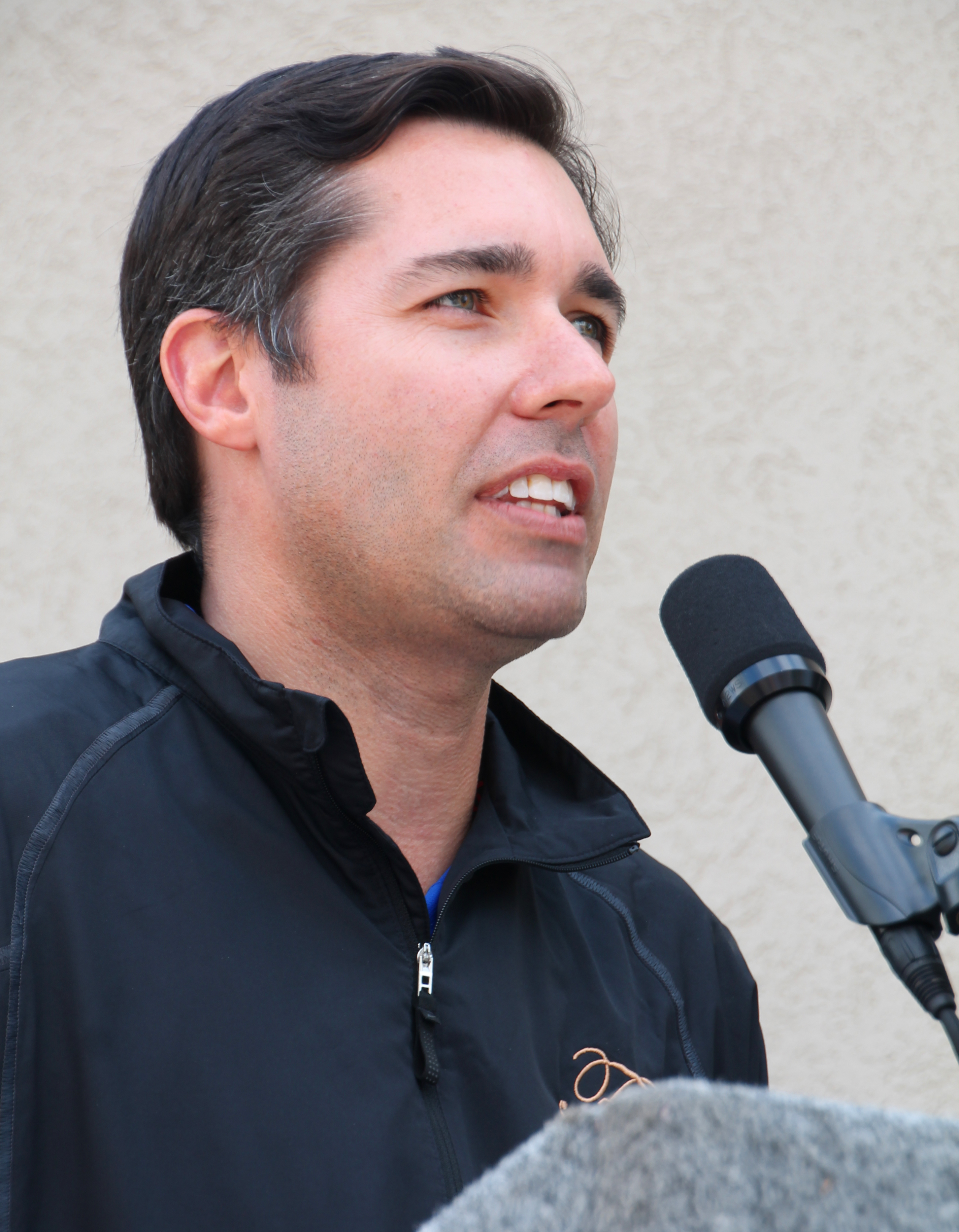 Larry Foyt at the opening of the Foyt Wine Vault, Speedway, Indiana